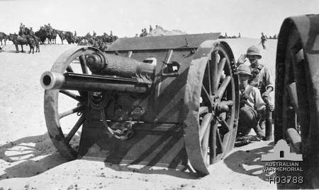 Romani, Sinai. 1916. An 18 pounder artillery piece. Horses used for moving the artillery equipment can be seen in the background.